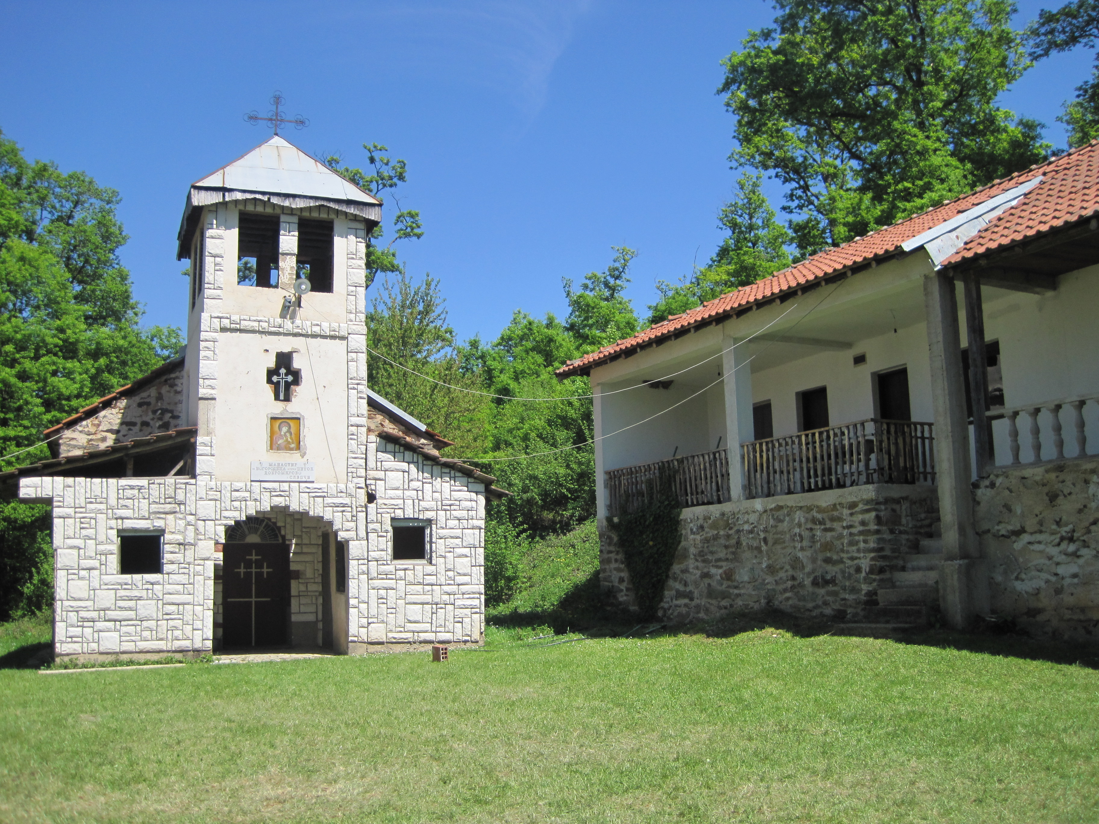 Monastery Dobromirovo, Slepce